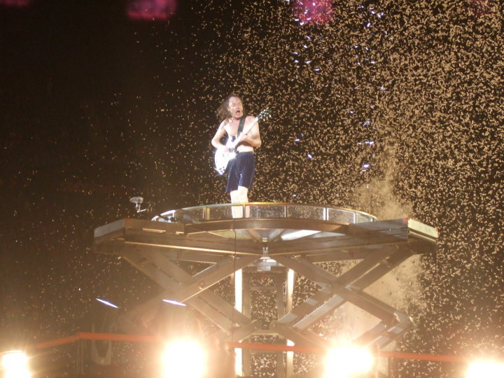 Angus Young in June 2010 at the Stade de France (Paris).